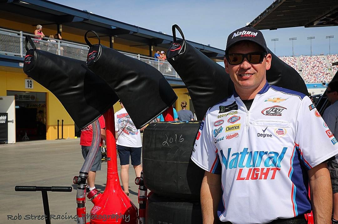 Trent Owens-Crew Chief Las Vegas Motor Speedway-March 12, 2017